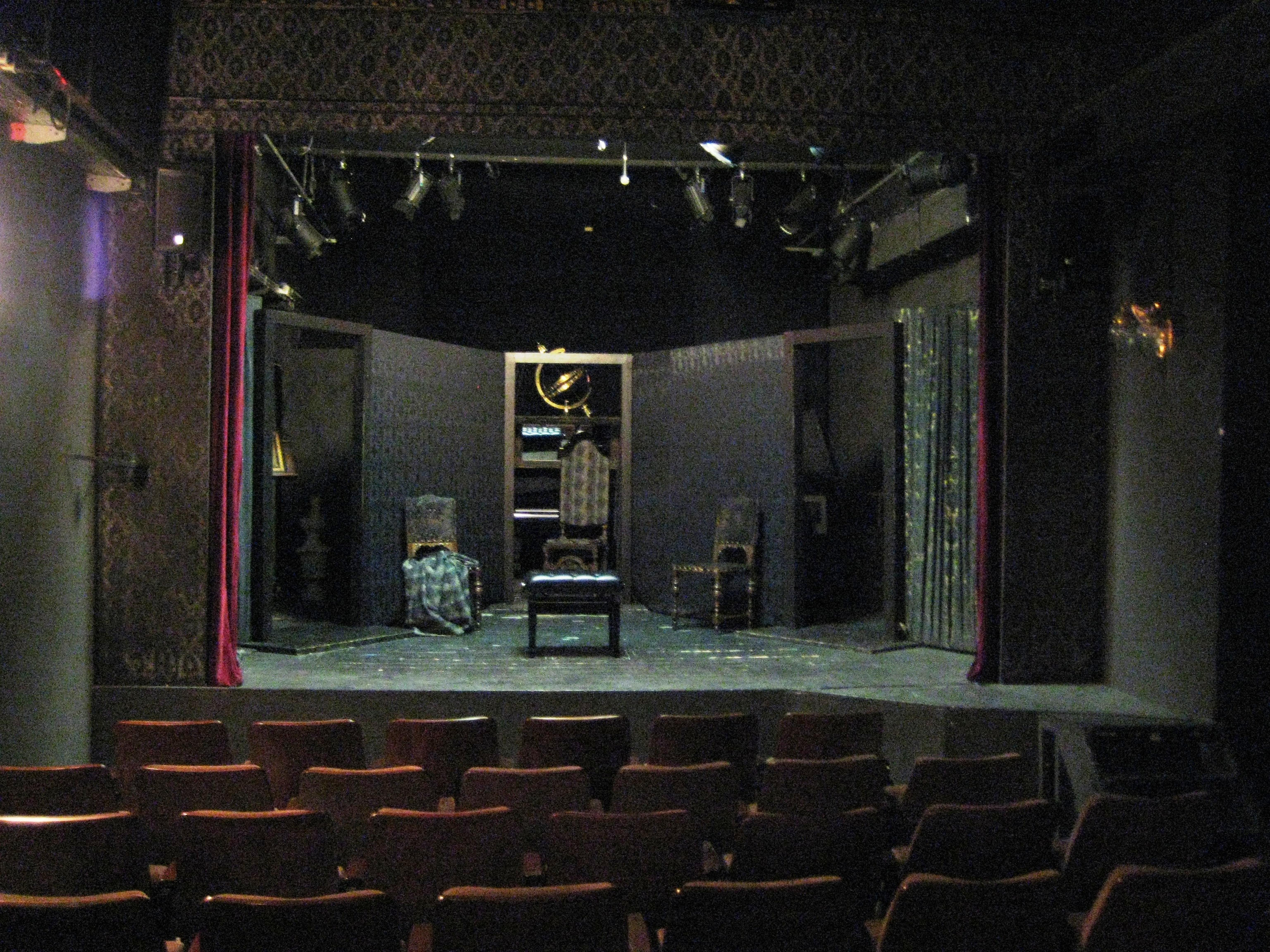 Atheliertheater (Vienna, Austria): Stage